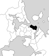 Map of the Tamaki electorate 1990-93